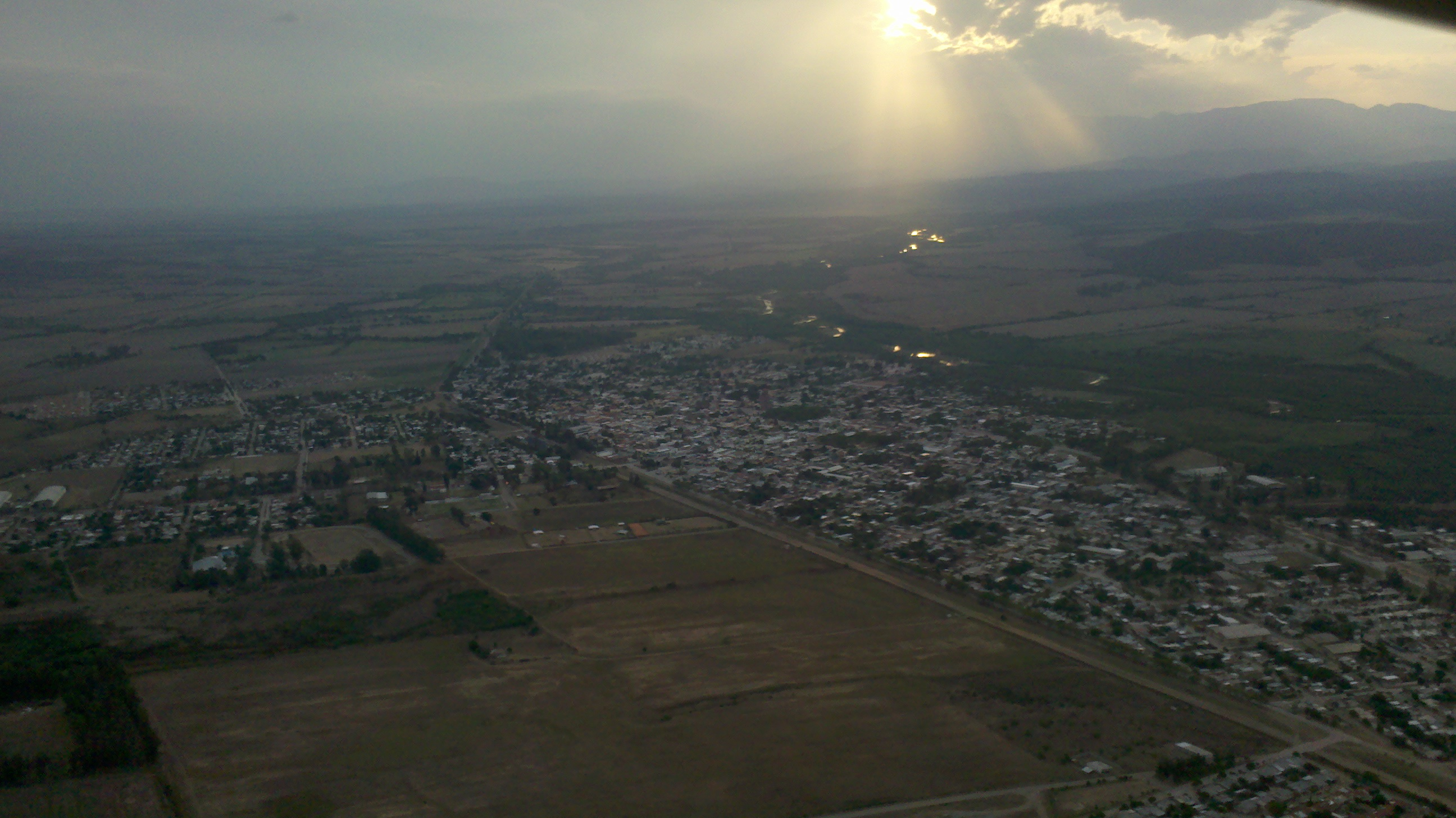 Rosario de la Frontera as seen from the air.